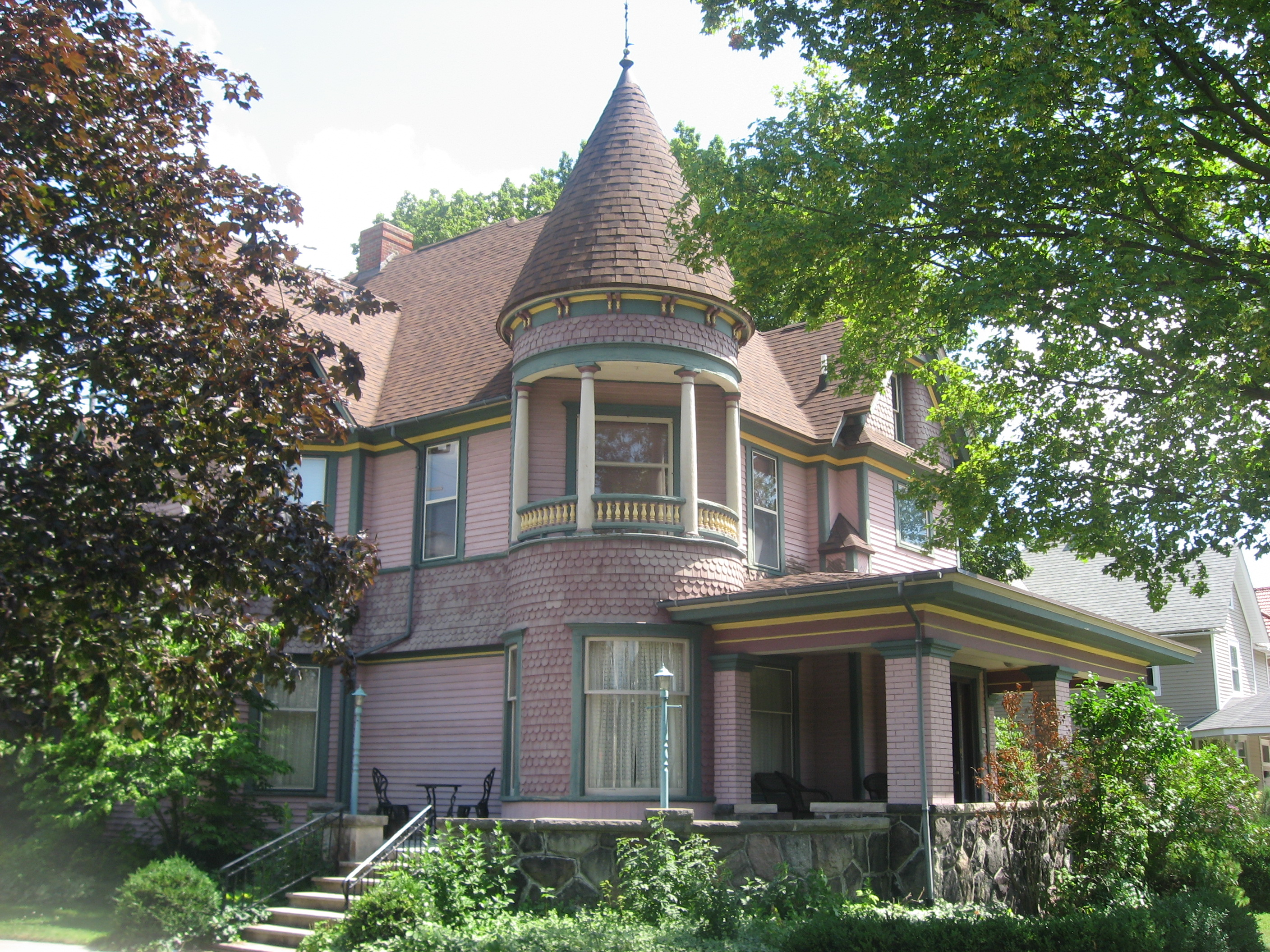 Front and western side of the Frank and Katharine Coppes House, located at 302 E. Market Street (U.S. Route 6) in Nappanee, Indiana, United States. Built in 1893, it is listed on the National Register of Historic Places, and it is part of a Register-listed historic district, the Nappanee Eastside Historic District.